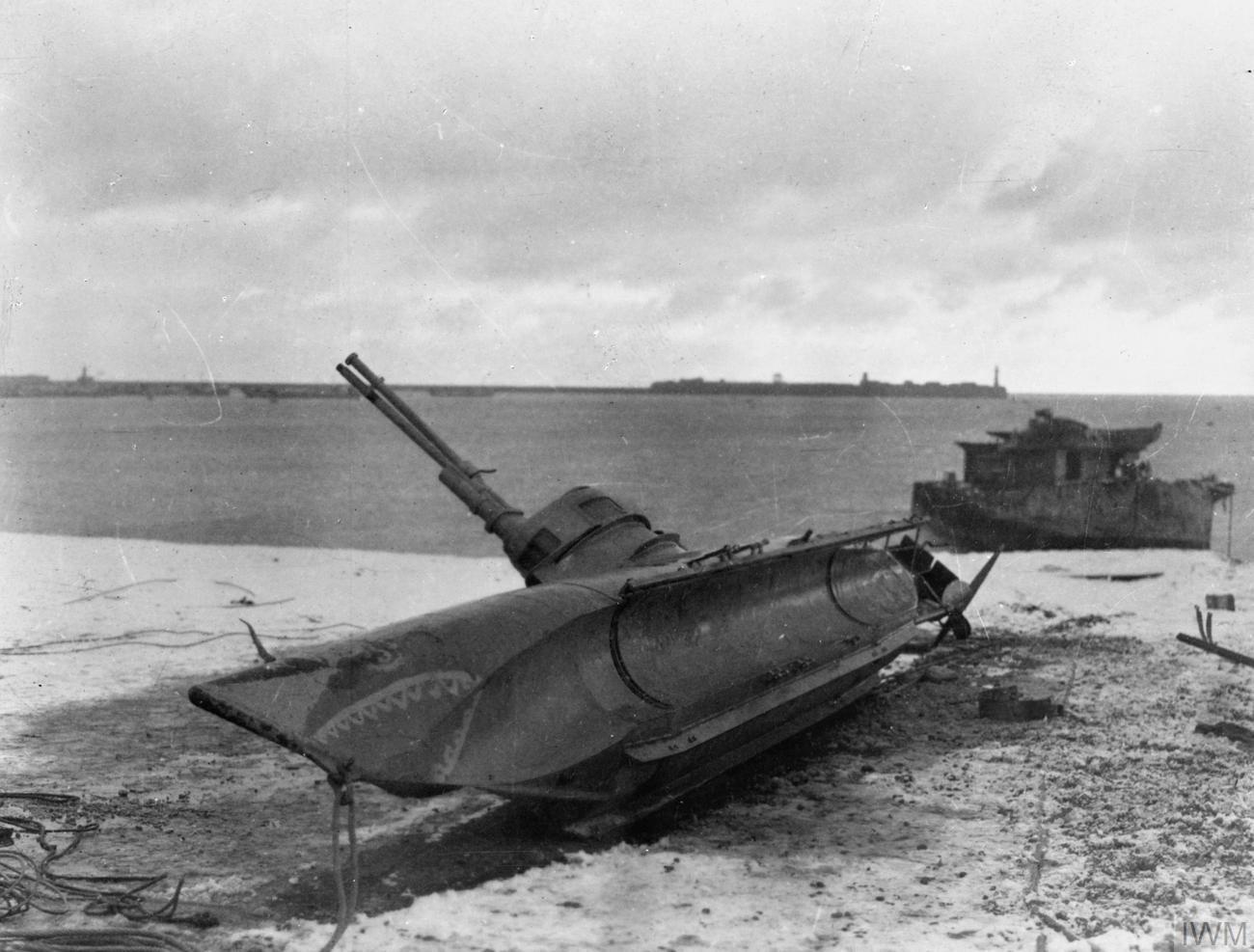 The Royal Navy during the Second World War Bow view of a German Biber type Midget U-boat high and dry on a European beach after being forced into capture by the Royal Navy.